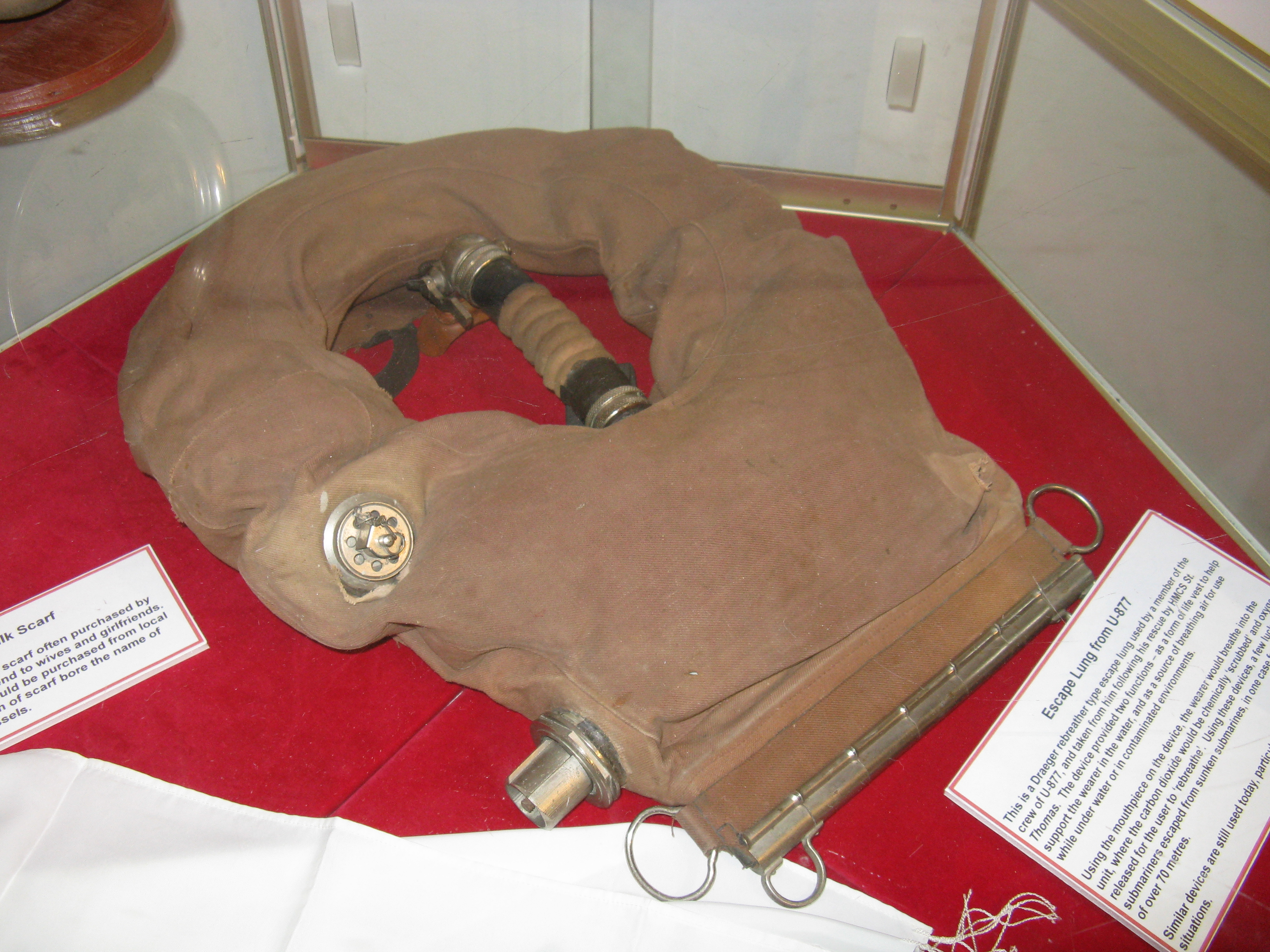 German WWII Dräger escape set from U-877 displayed in Elgin Military Museum in St. Thomas, Ontario